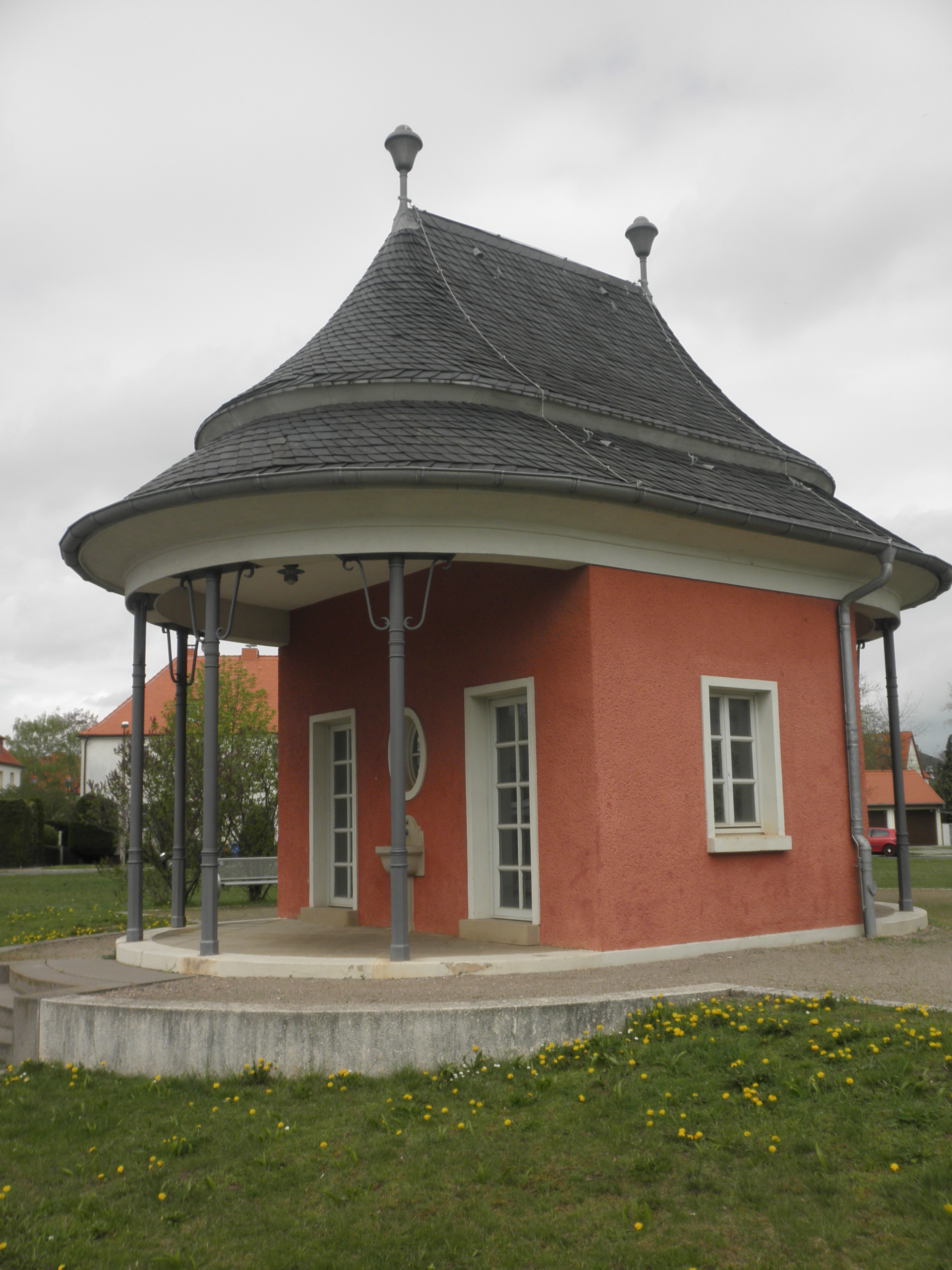 Leuna Brunnenhäuschen